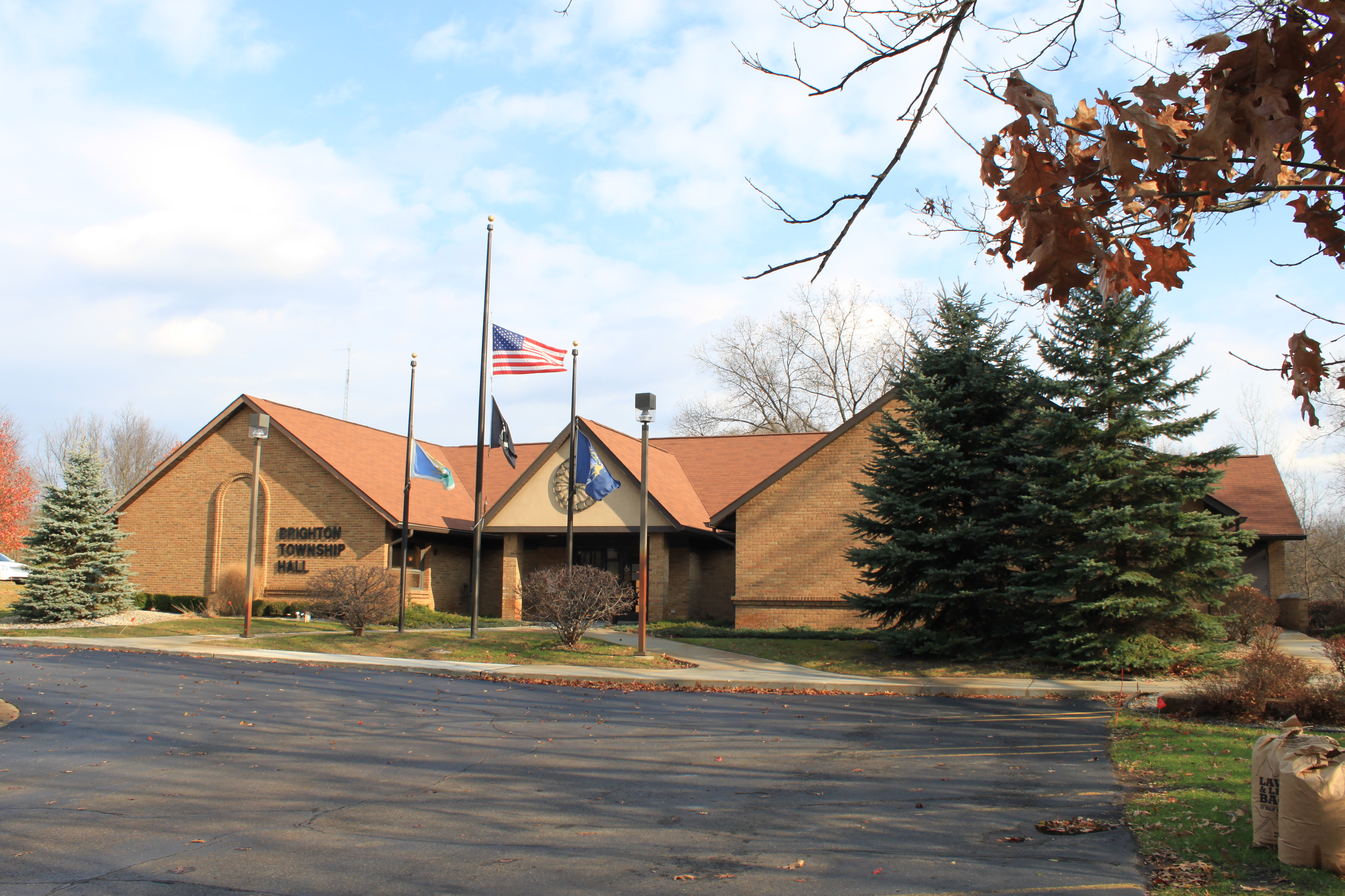 Brighton Township Hall, 4363 Buno Road, Livingston County, Michigan